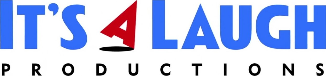 The new It's a Laugh Productions logo, first seen on Raven's Home, Season 3